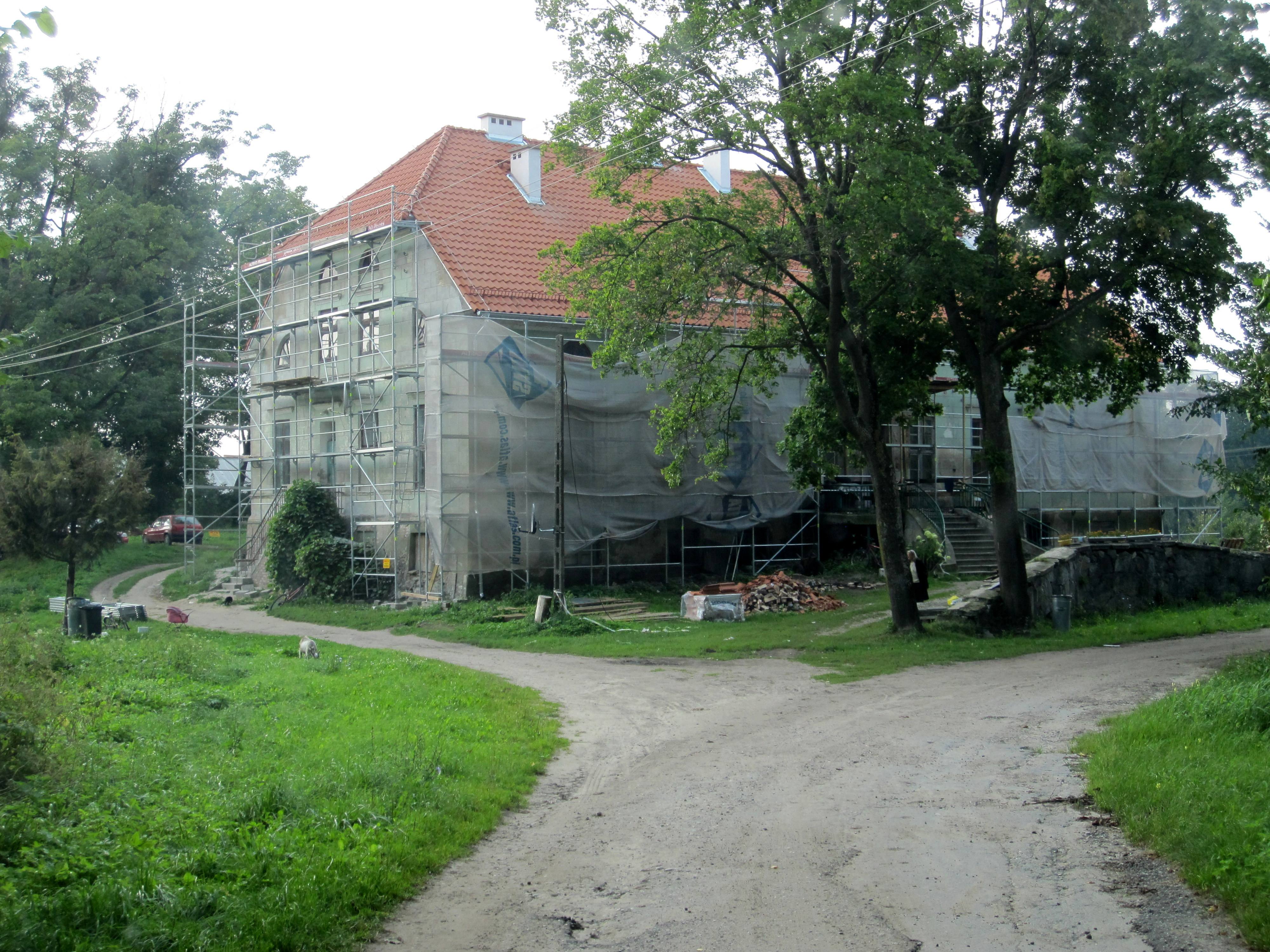 Manor in Rybno (powiat mrągowski)